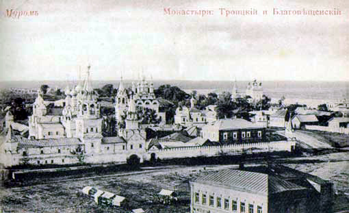 Abbeys of Murom in the early 20th century